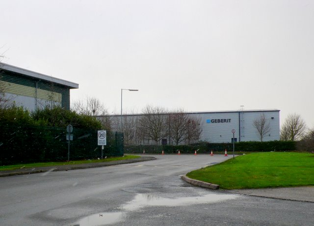 Industrial Estate This estate is Wellesbourne Distribution Park in the north east corner of the square on the south side of Wellesbourne airfield.